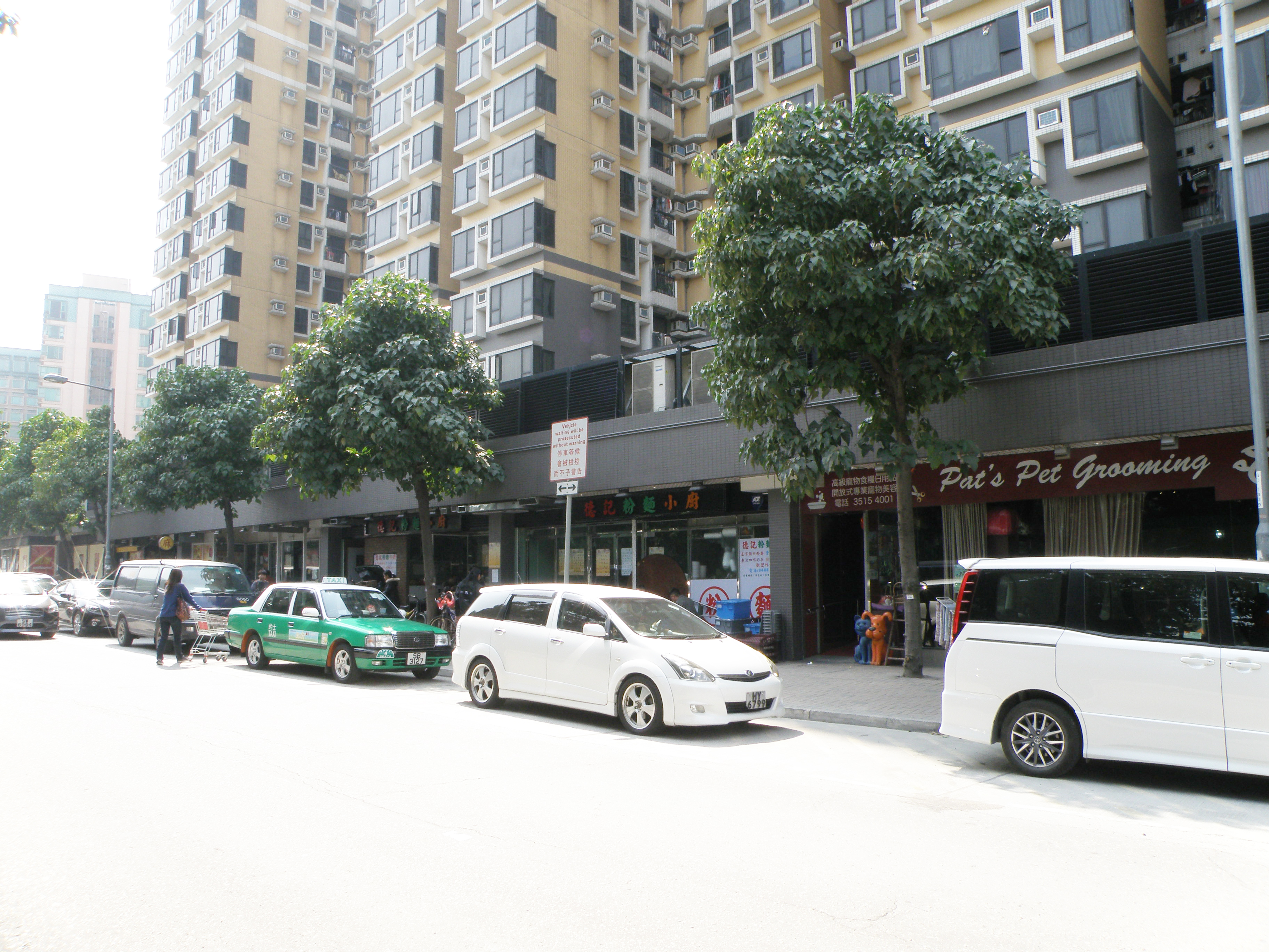 The Sherwood in Lam Tei, Hong Kong.